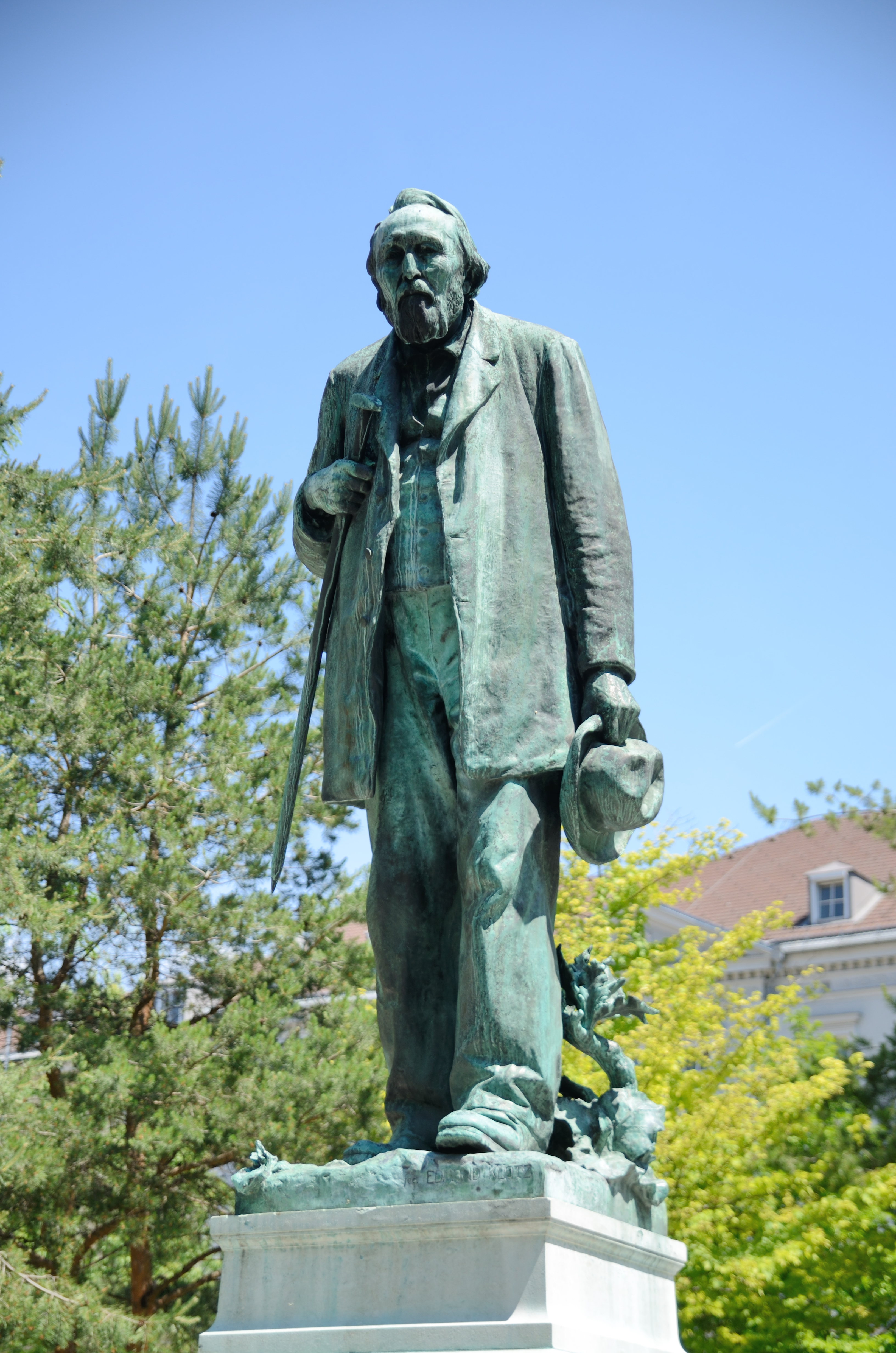 Innsbruck: Adolf Pichler monument